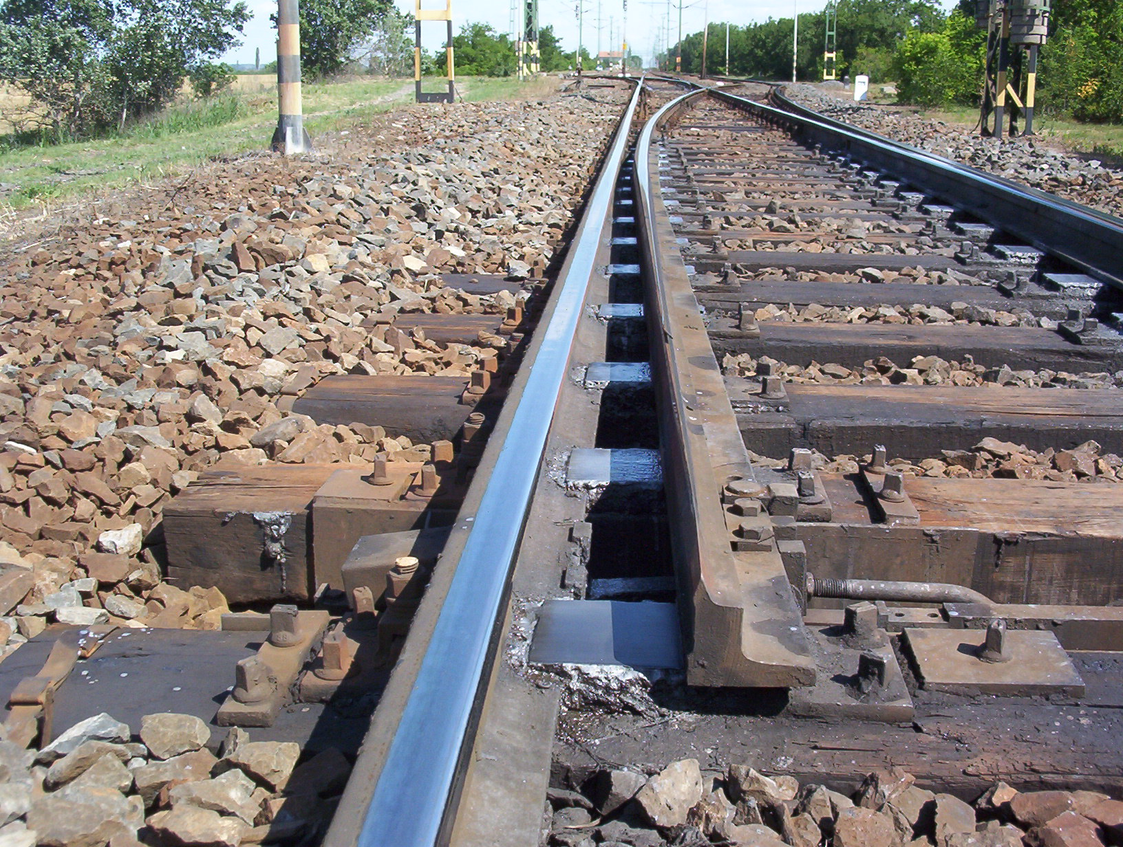 Type B54XI railway point; Dömsöd, Hungary